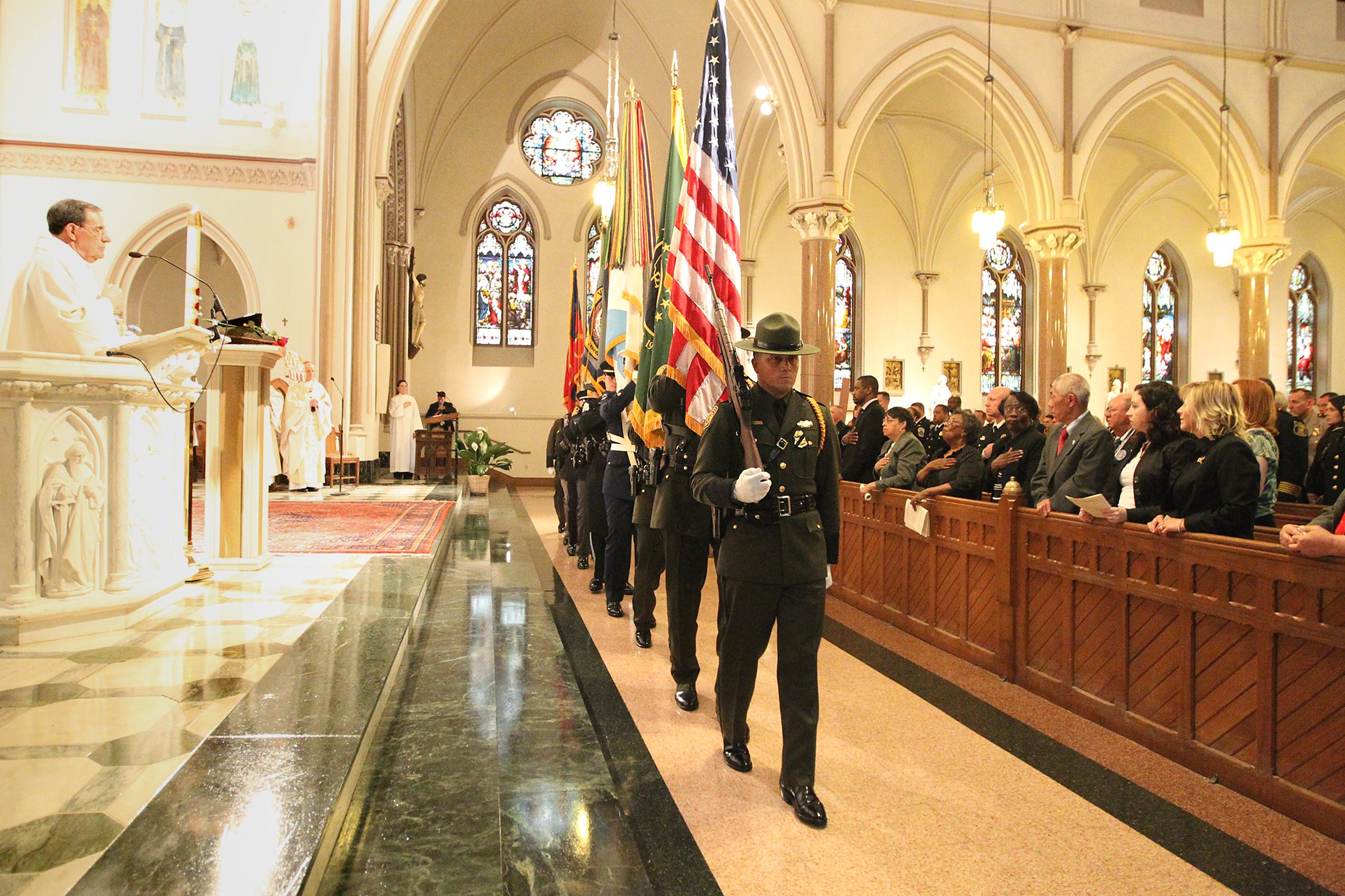 Police Week Blue Mass on May 7, 2013. The Border Patrol Honor Guard enter St. Patrick's Cathedral, Washington, DC. to render the colors. Photographer: Donna Burton